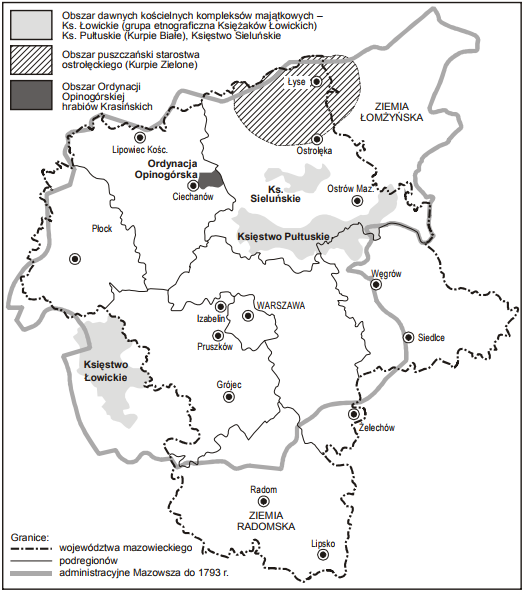 Grand estates in Duchy of Mazovia